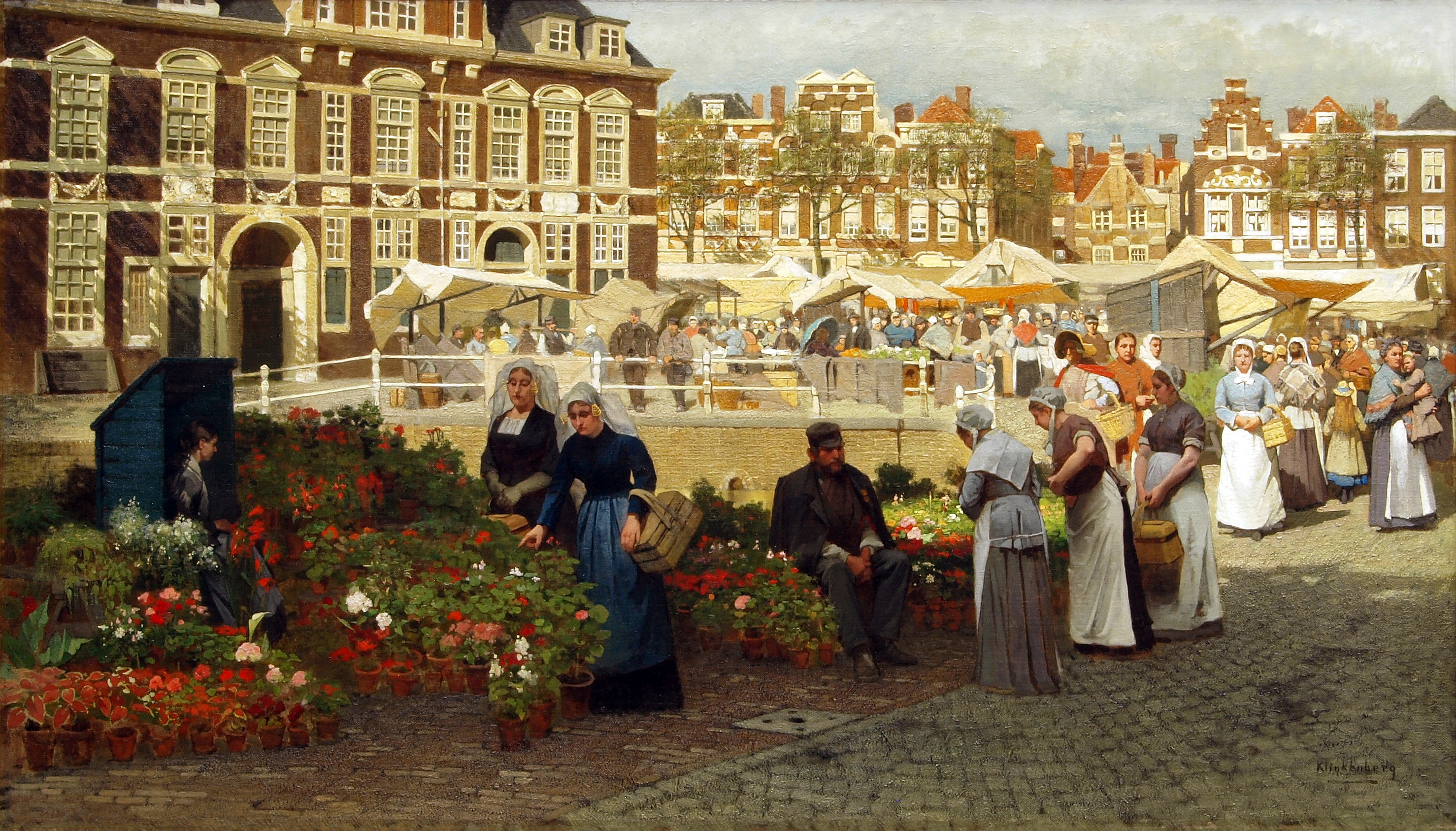 The flower market in The Hague at the Great Market Square